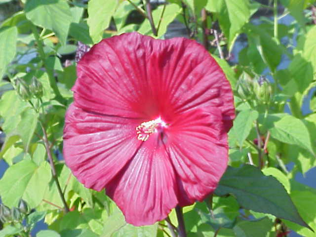 Species: Hibiscus moscheutos Family: Malvaceae Image No. 8